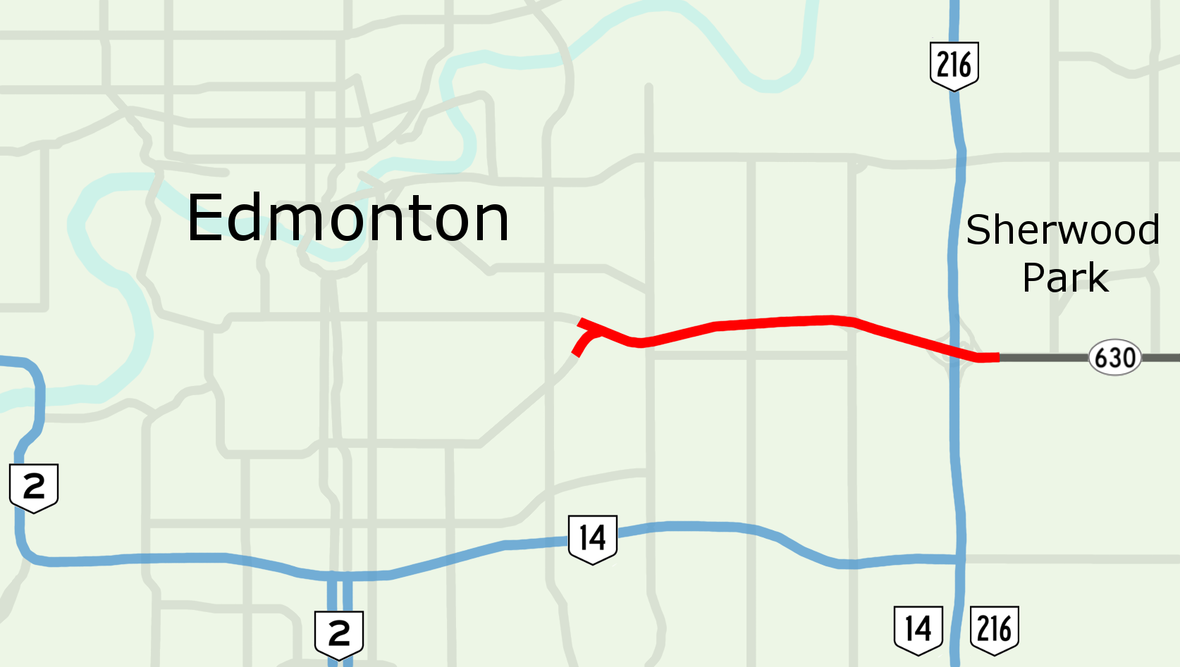 Created with OpenStreetMap